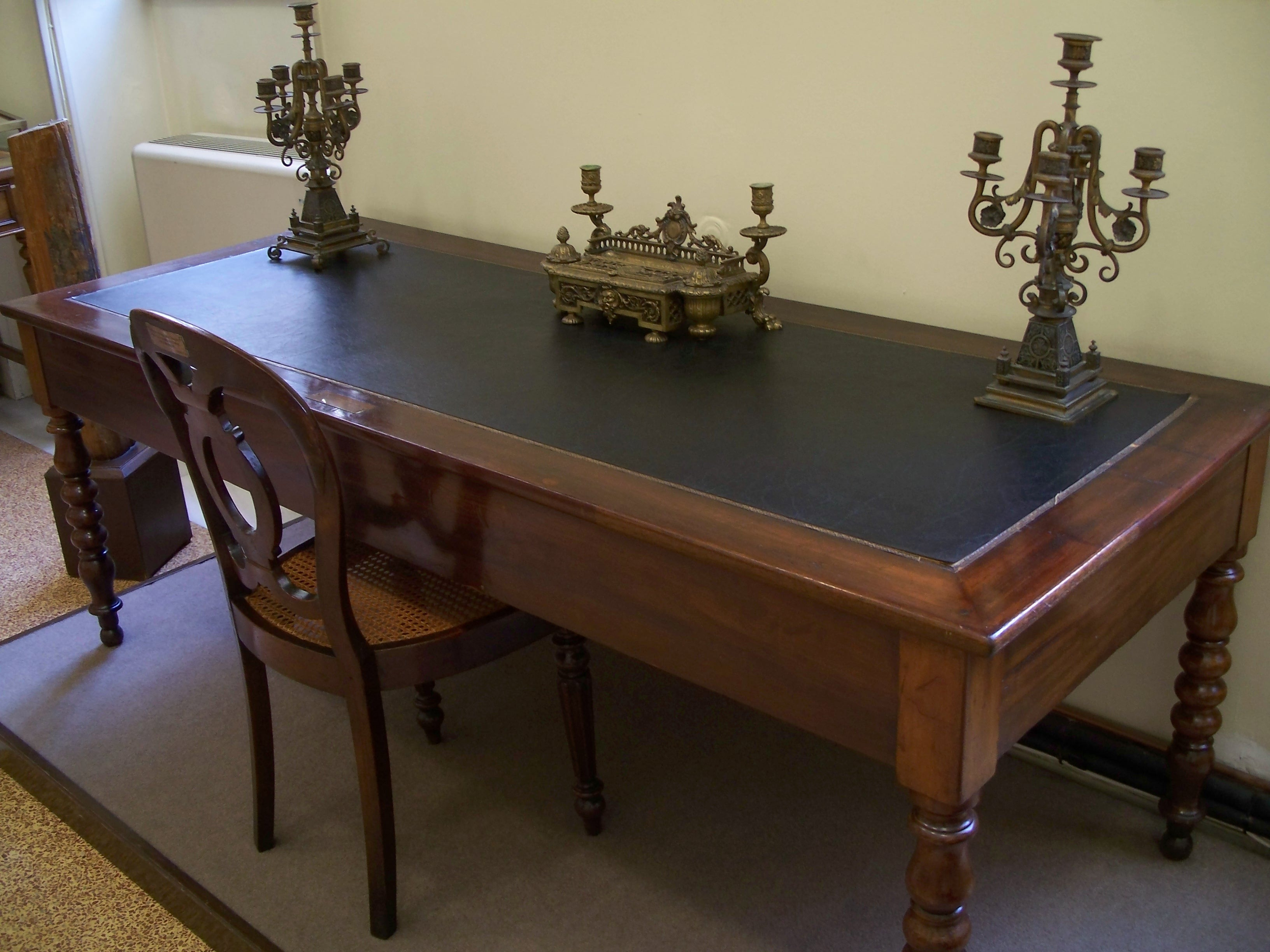 The office of Prime Minister Harilaos Trikoupis. National Historical Museum, Athens, Greece.